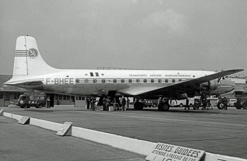 Douglas DC-6B F-BHEE of Transports Aeriens Intercontinentaux at Paris Orly Airport in 1957